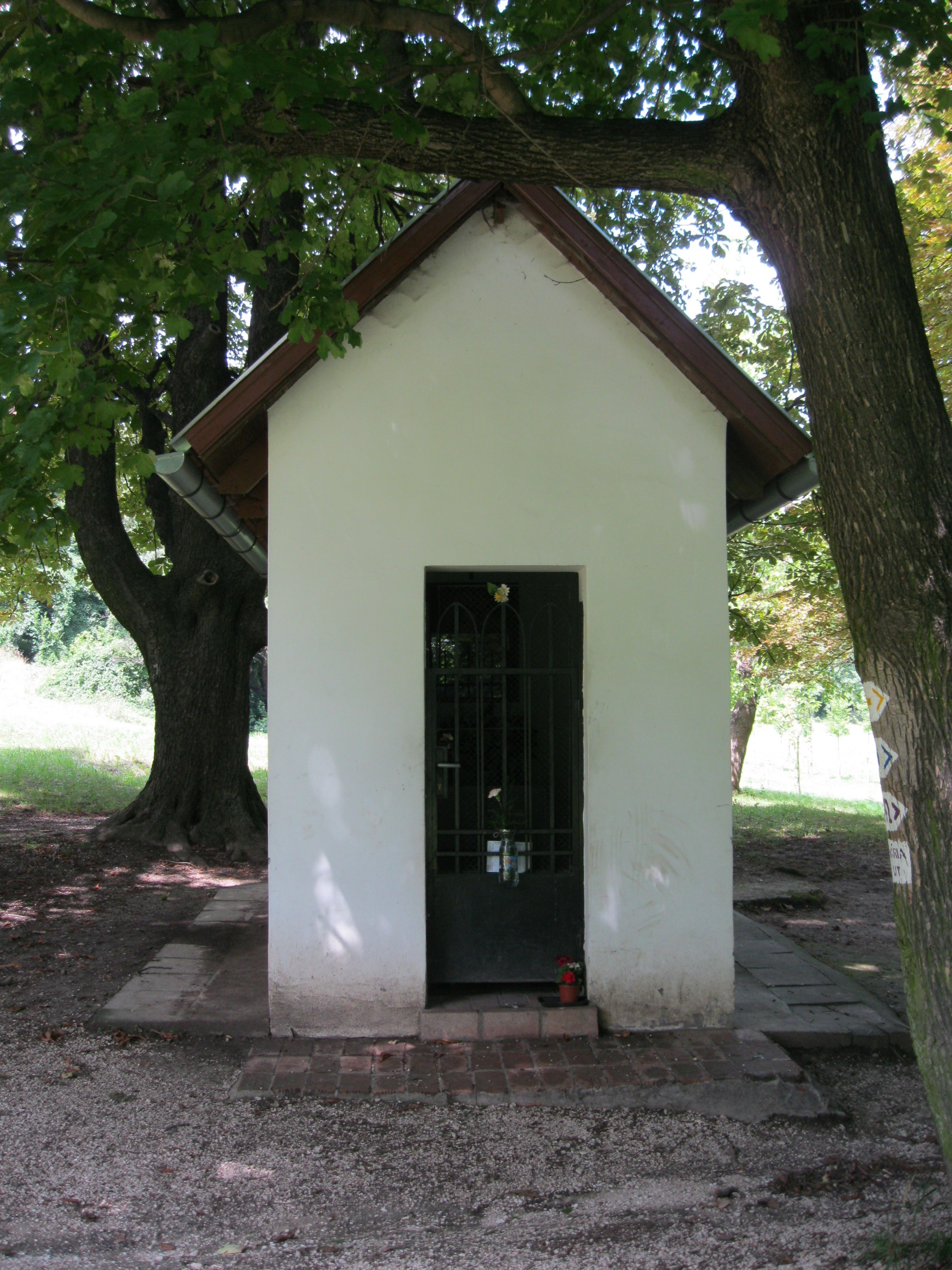 Saint Anna chapel on Anna meadow, Budapest District XII.